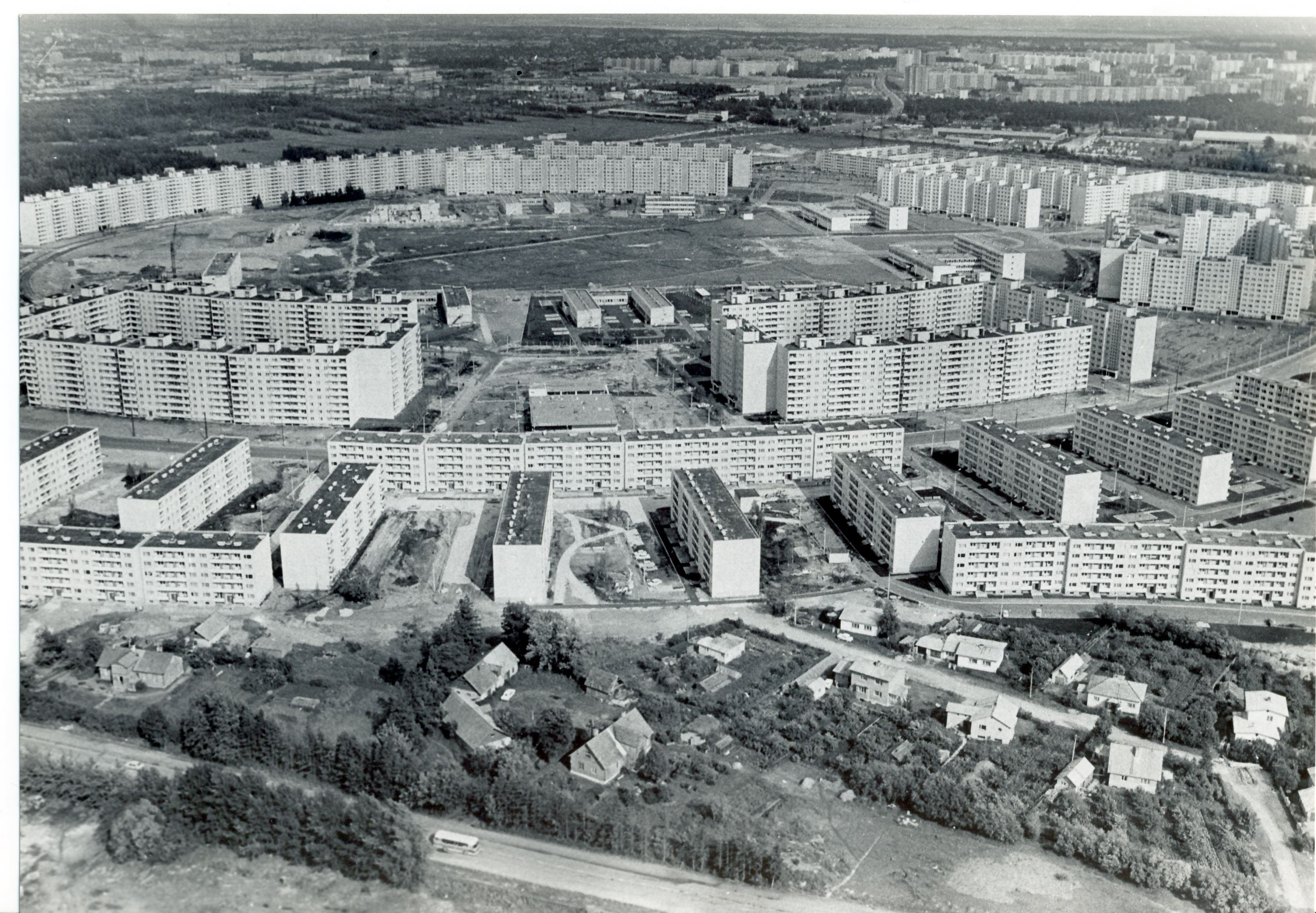 Bird's eye view Õismäe